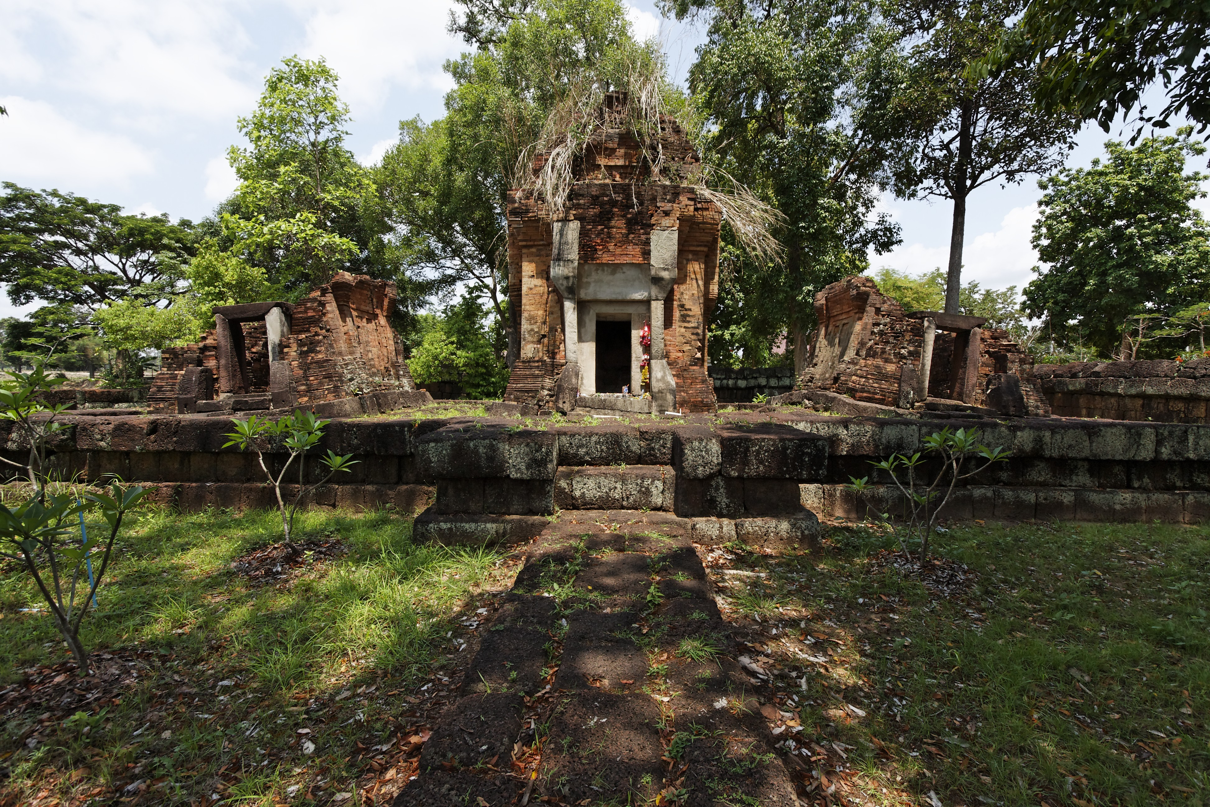 Prasat ban Ben, Thailand